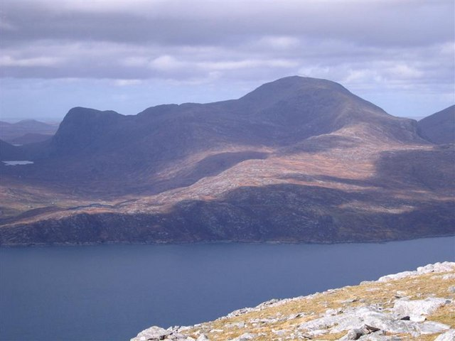 The Uisgnabheal Mor Hills, North Harris This Supplemental image of Uisgnabheal Mor and its neighbouring ridges was taken from the summit of Beinn Dhubh. Note the steep cliffs of Sron Scourst on the left, falling near vertically for almost 1500 feet.